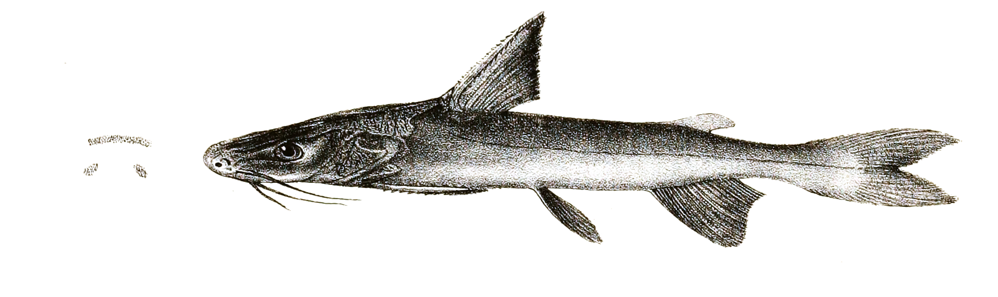 Cochlefelis burmanicus syn. Arius burmanicusThe species names / identity need verification. The original plates showed the fishes facing right and have been flipped here. Arius burmanicus